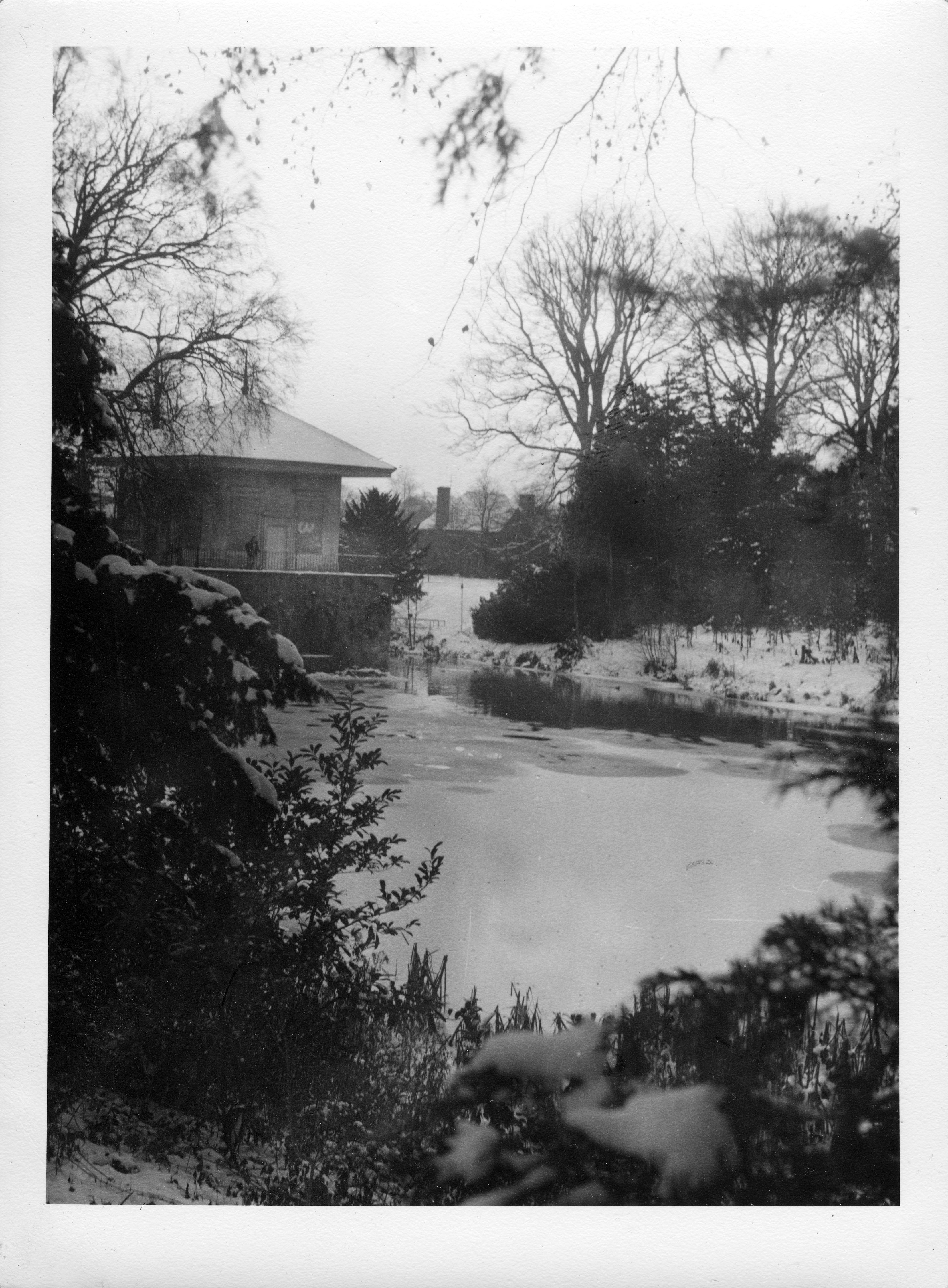 The China House and lake, Beckett Hall, Shrivenham, Oxon (formerly Berks), England